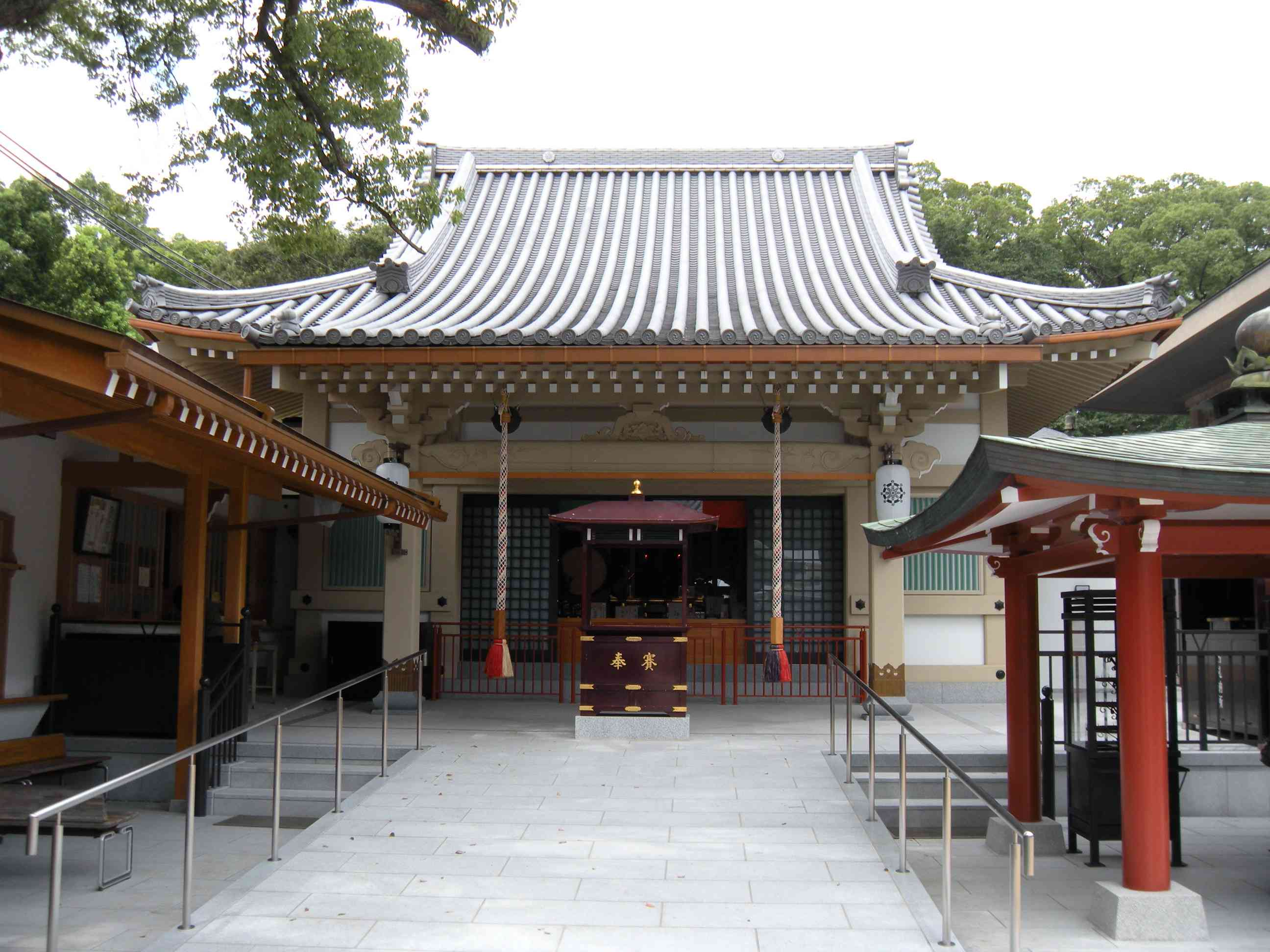 Nishinomiya Naritasan Manmanchan